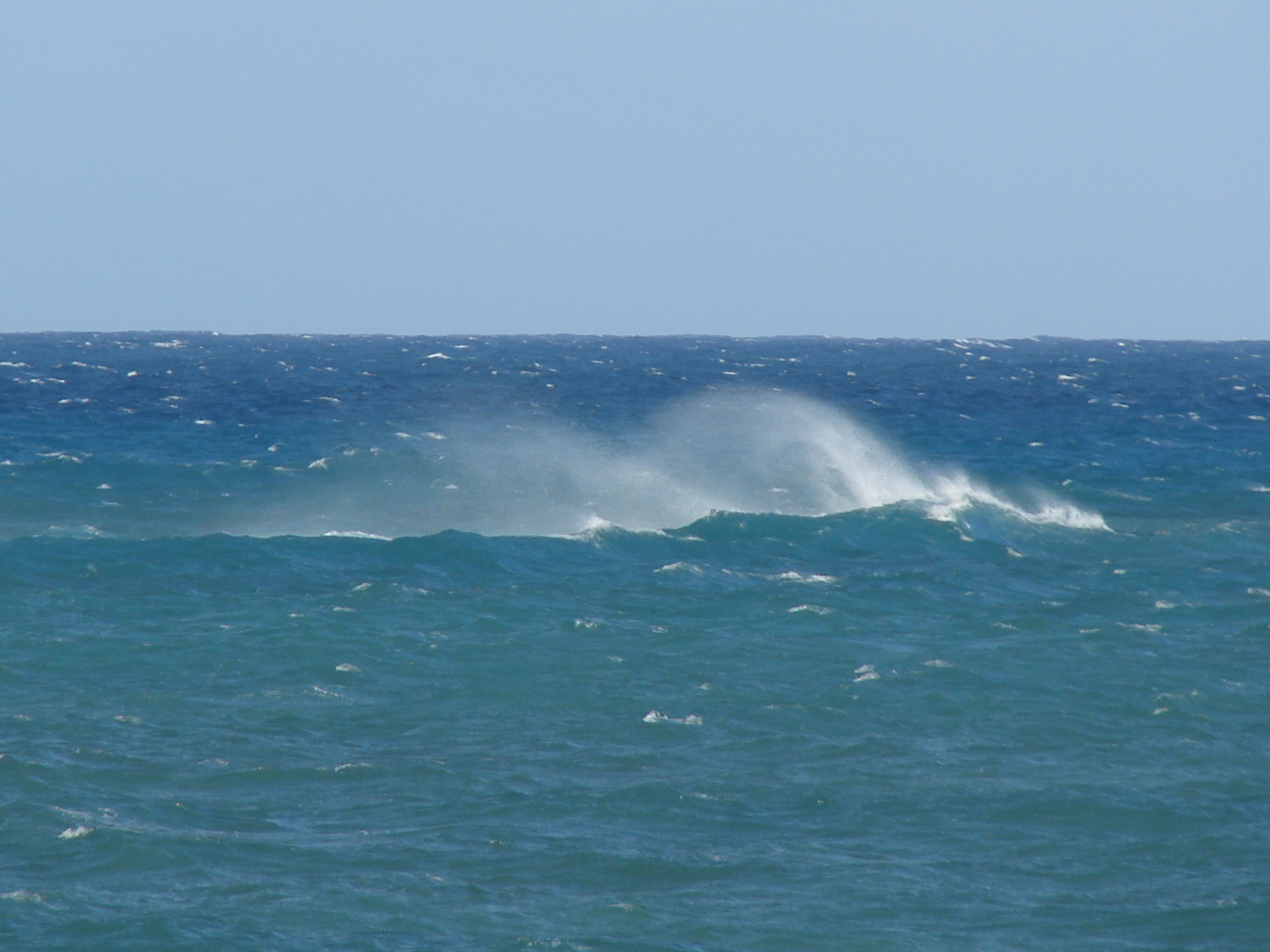 Chenopodium oahuense (habitat view ocean). Location: Maui, Kanaha Beach